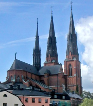 Uppsala Cathedral, seen from the other side of the Fyris river.